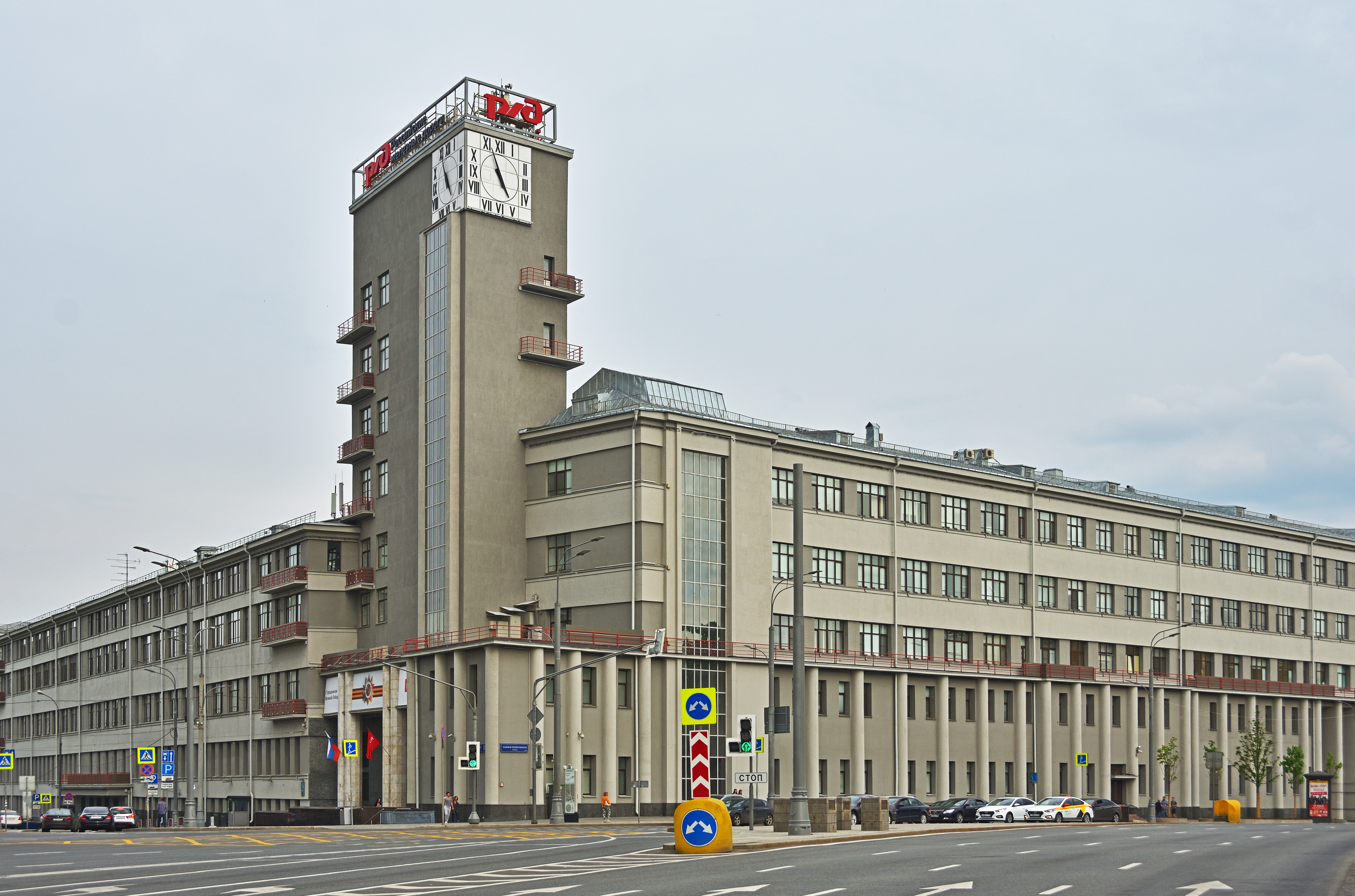 Commissariat of Railways, Moscow